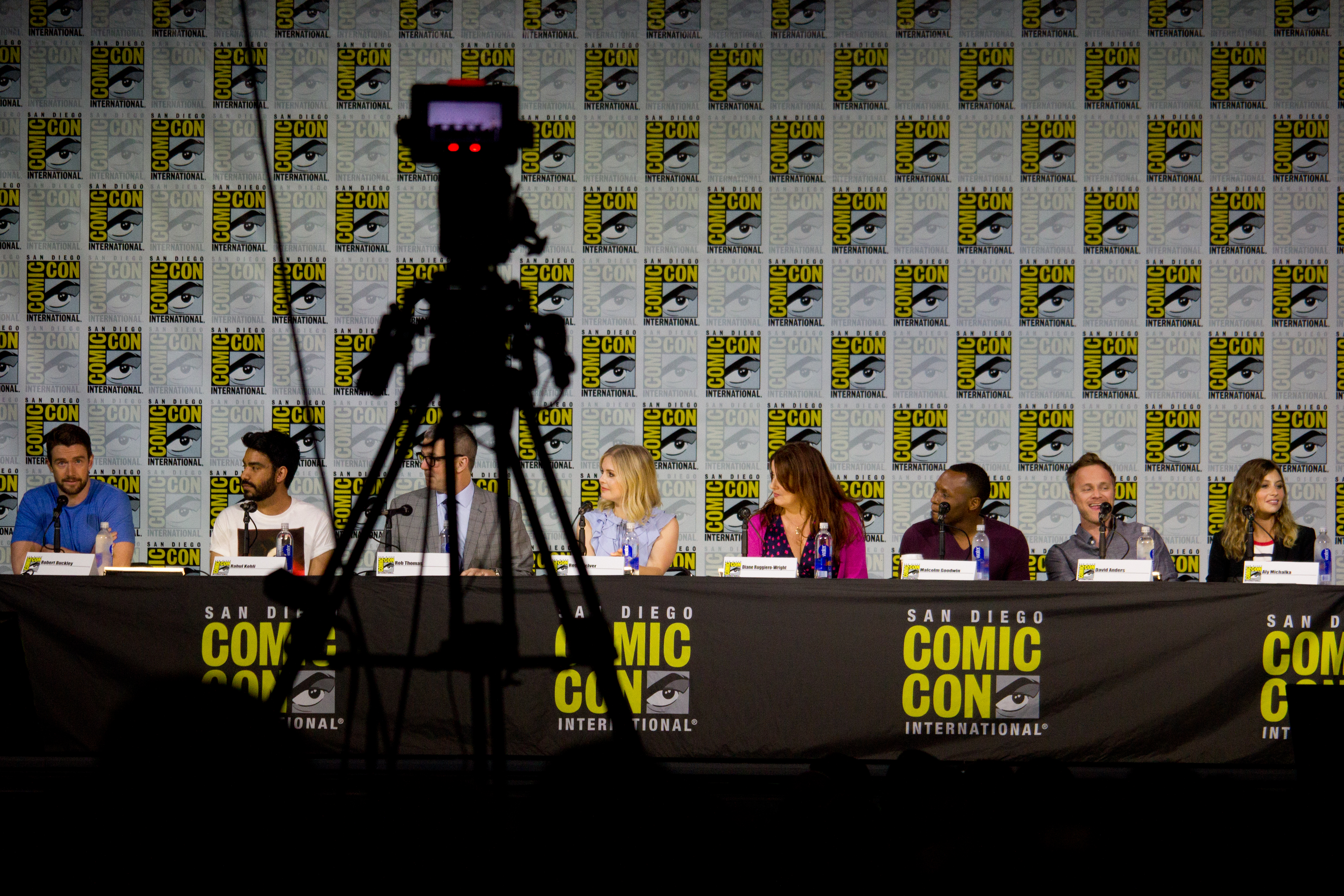 iZombie panel at the 2017 Comic-Con International: Robert Buckley, Rahul Kohli, Rob Thomas, Rose McIver, Diane Ruggiero-Wright, Malcolm Goodwin, David Anders and Aly Michalka